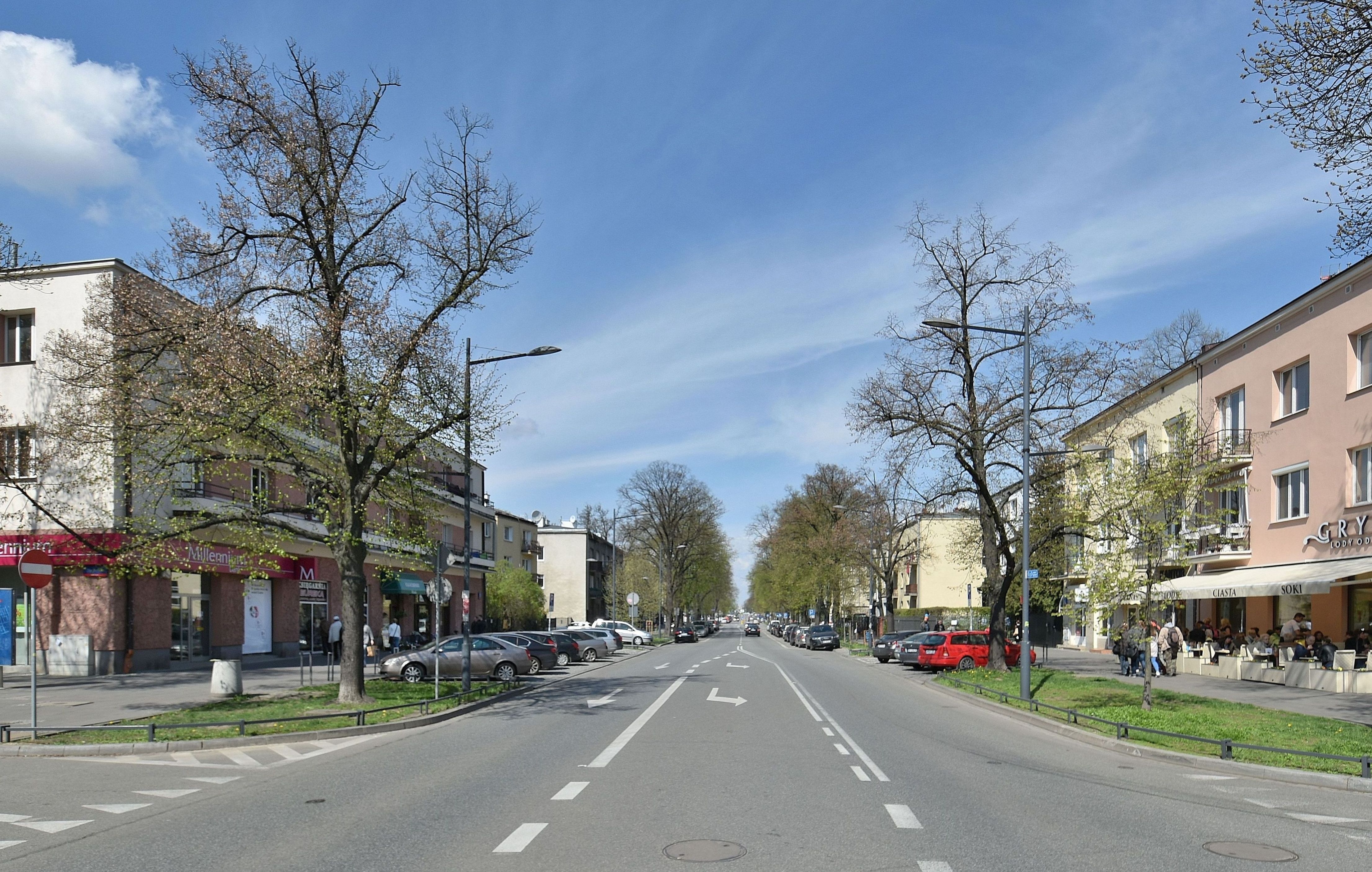 Francuska Street near the intersection with Obrońców Street in Warsaw